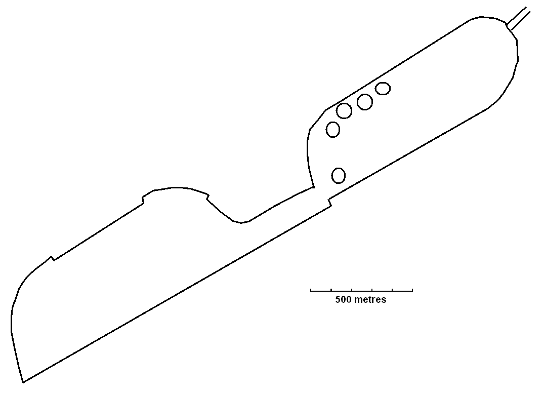 Phoenix Island diagram